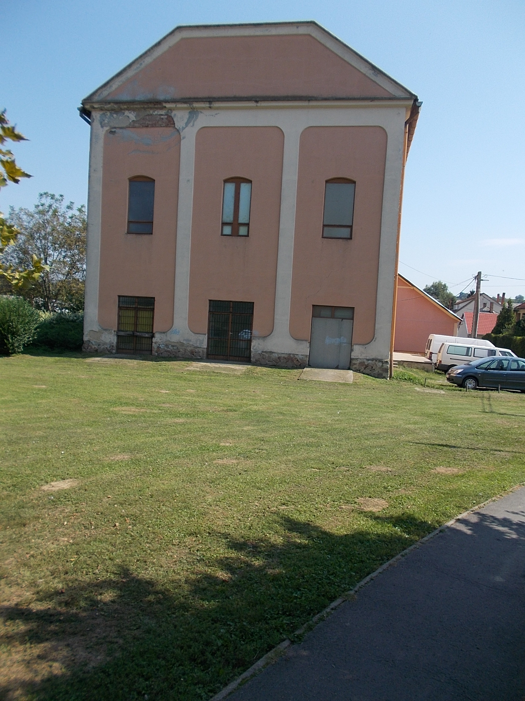 Orthodox synagogue, built in 1924 by Salomon Krausz- Táncsics Street, Rákóczi Street off, Bonyhád, Tolna County, Hungary.